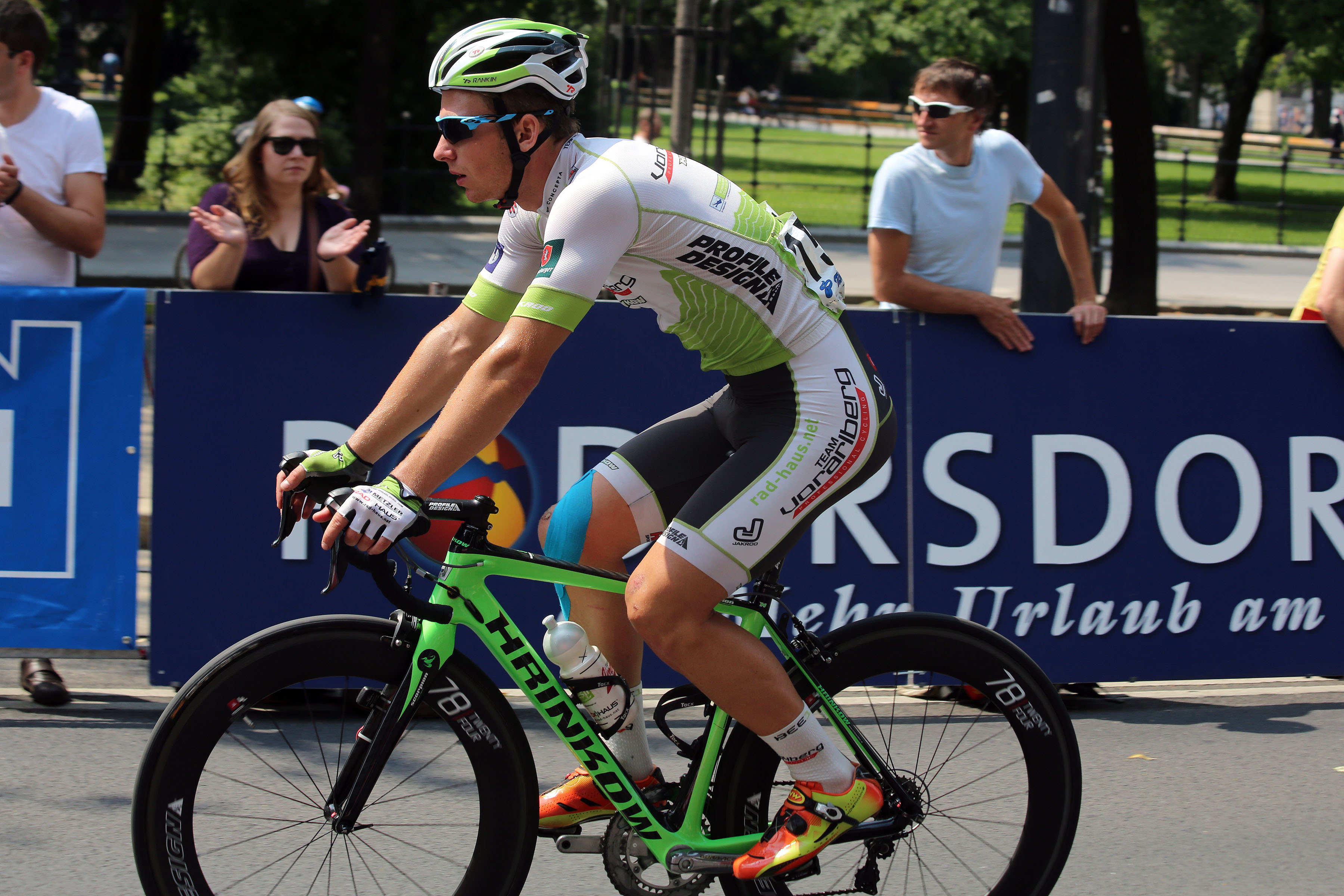 Daniel Biedermann after finishing the final stage of the Tour of Austria in Vienna, Austria.